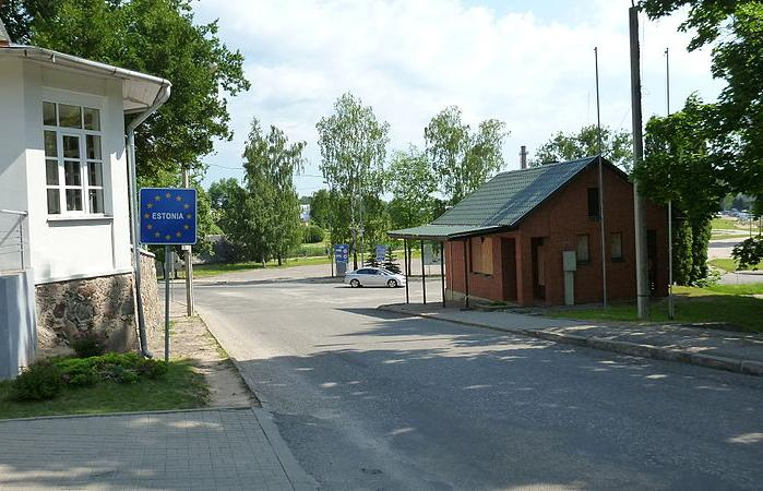 The border between Latvia and Estonia in Valka